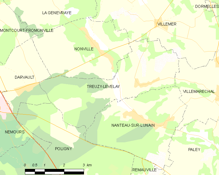 Map of French municipality Treuzy-Levelay